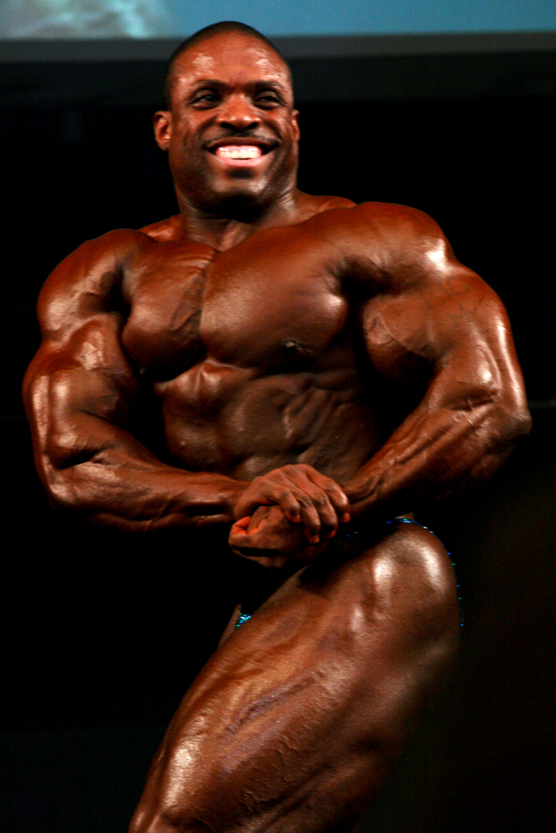 Melvin Anthony 2008 IFBB Australian Pro Grand Prix VIII